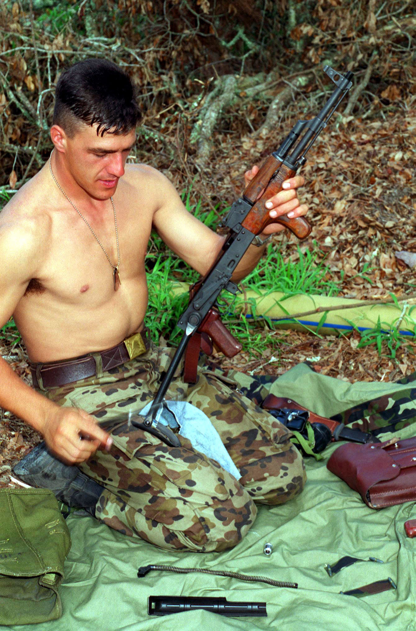 A Romanian Soldier, not wearing his uniform shirt, cleans and disassembles his 7.62mm AIMS assault rifle at the end of a long training day during Operation COOPERATIVE OSPREY 96 held at Camp Lejeune NC. Original caption:A ROMANIAN Soldier, not wearing his uniform shirt, cleans and disassembles his 7.62mm AKM assault rifle at the end of a long training day during Operation COOPERATIVE OSPREY 96 held at Camp Lejeune NC. Location: MARINE CORPS BASE, CAMP LEJEUNE, NORTH CAROLINA (NC) UNITED STATES OF AMERICA (USA) Source's ID: DMSD0200499 960819M2543R009